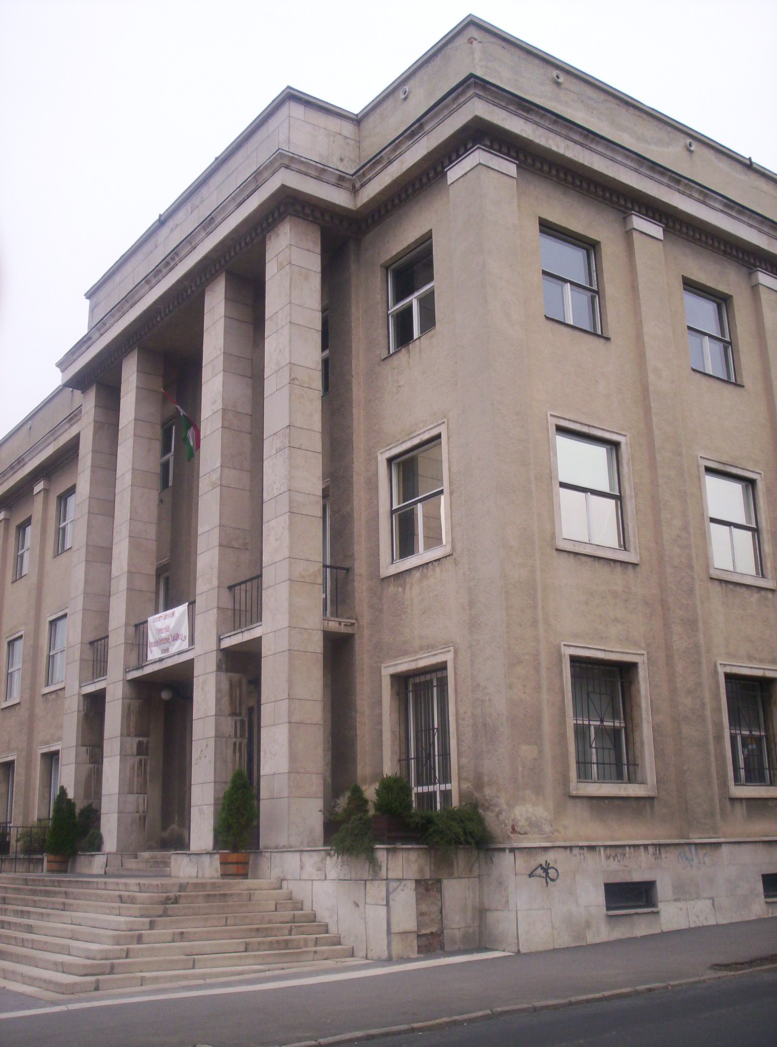 Description: Building "B" of the University of Veszprém